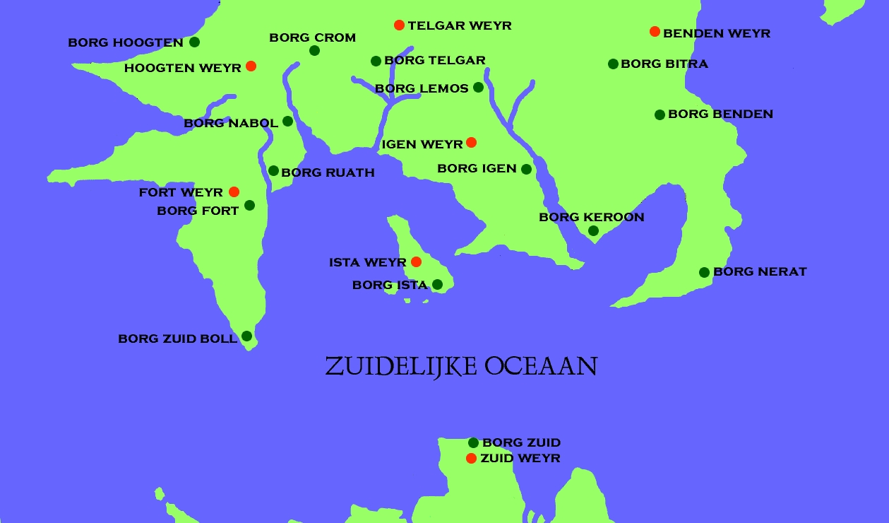 Northern continent map of Anne McCaffrey's "Pern" in Dutch